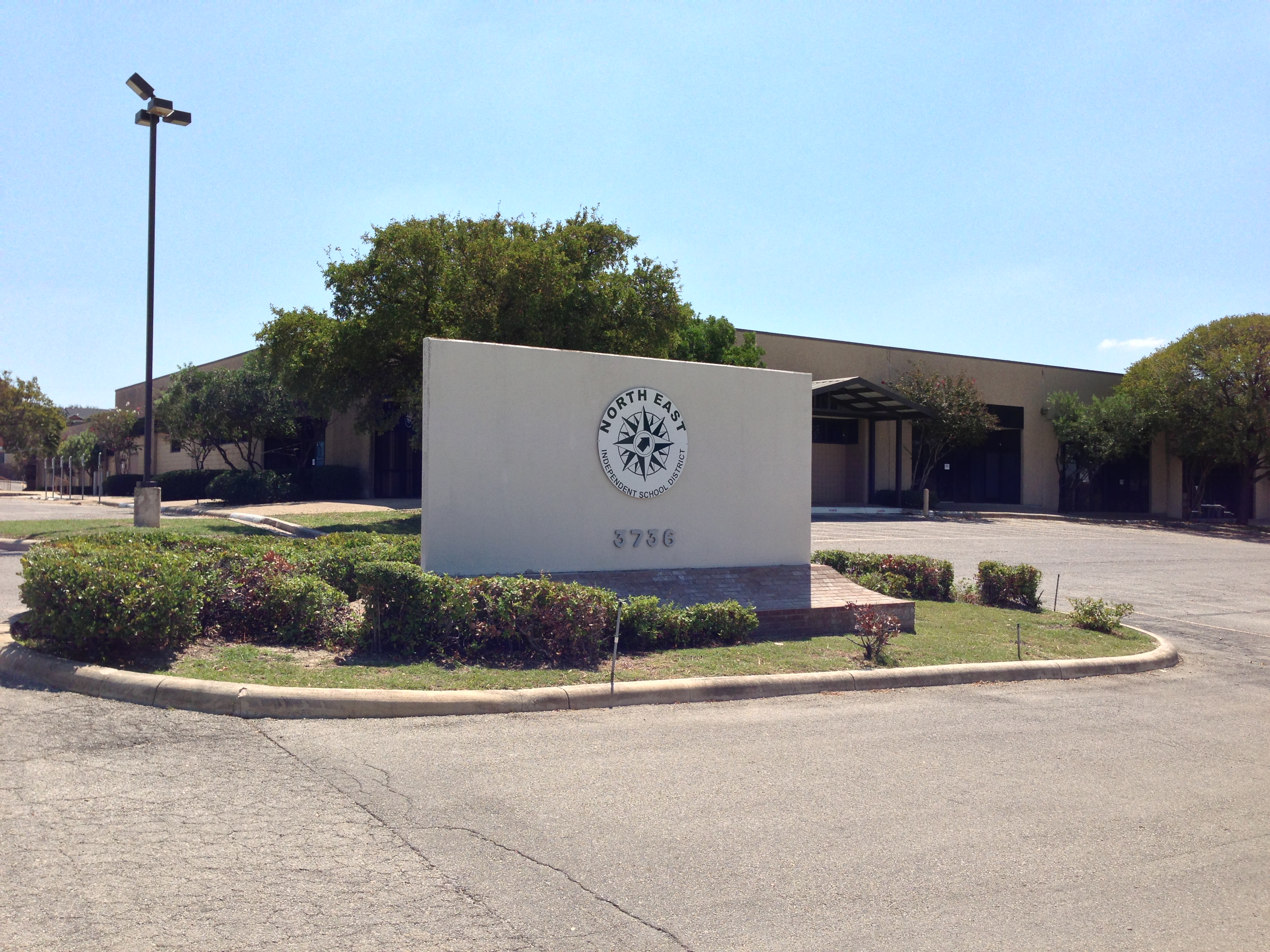 Northeast Independent School District